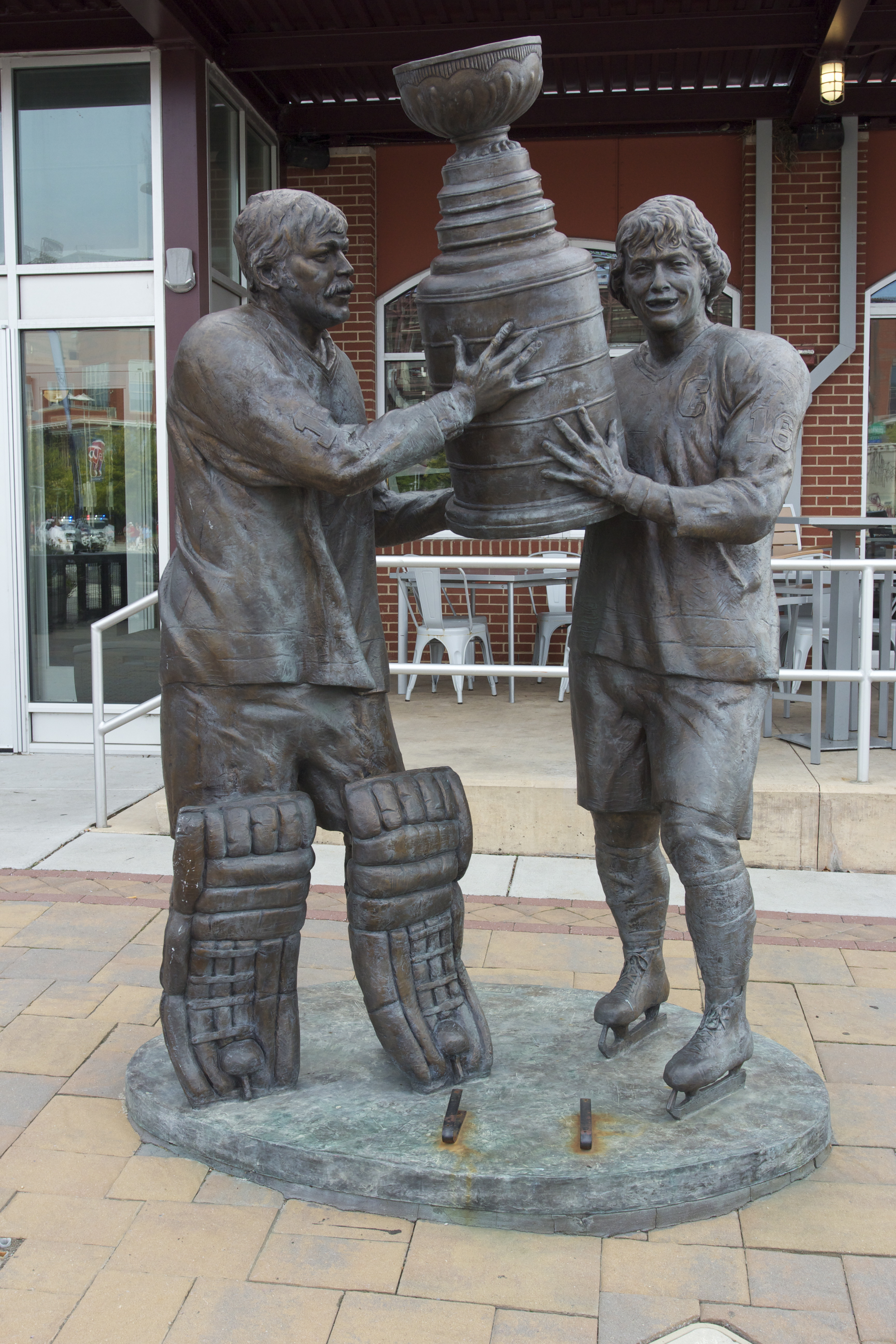 Sports statues in South Philadelphia